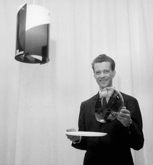 Photograph of the Finnish designer Yki Nummi (1925–1984) with objects made of acryl.